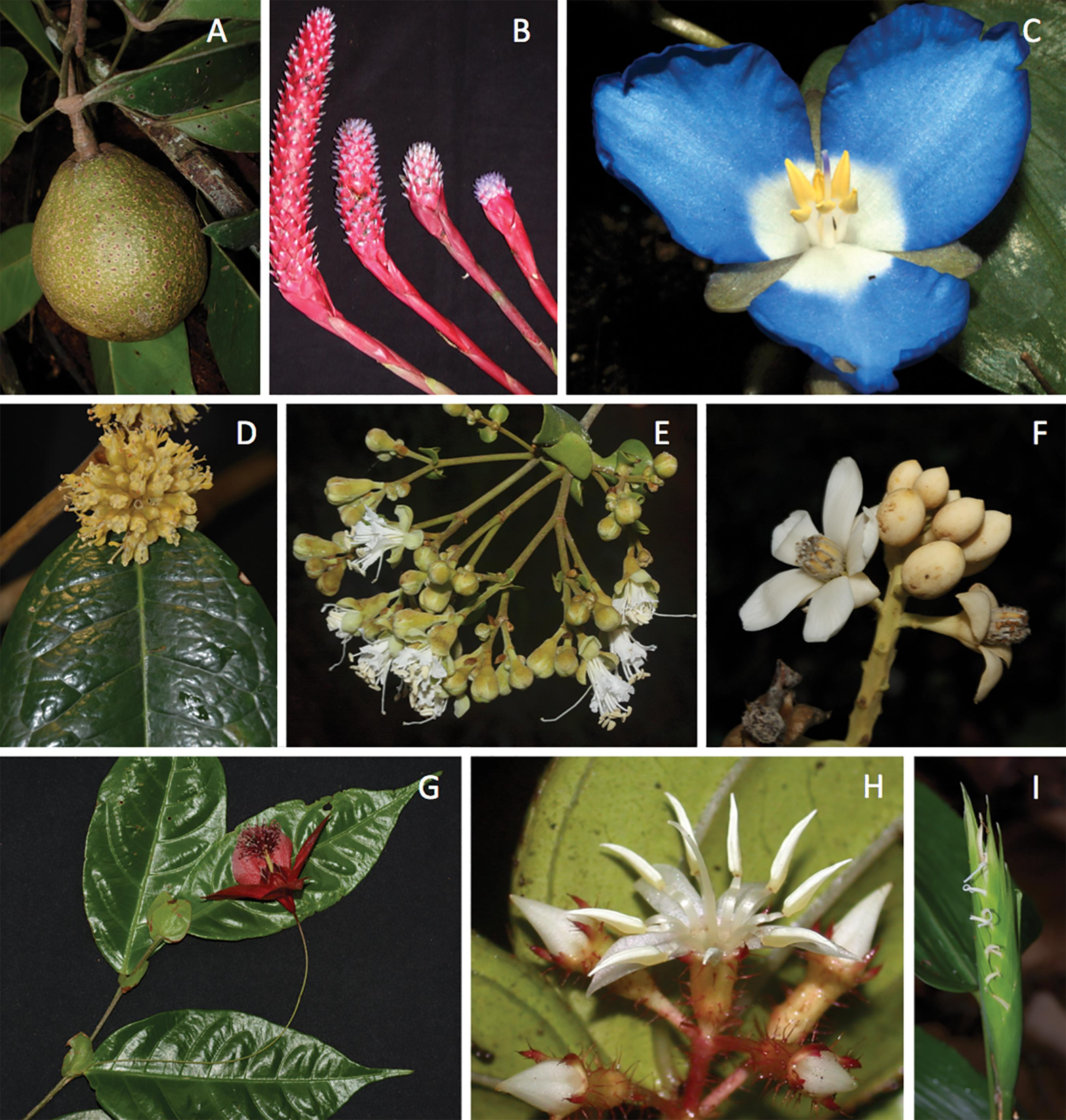 Some species found in the checklist of endemic angiosperms of Bahia Coastal Forests: a) Kuhlmanniodendron macrocarpum (Achariaceae). b) Quesnelia koltesii (Bromeliaceae). c) Dichorisandra leucophtalmos (Commelinaceae). d) Tapura zei-limae (Dichapetalaceae). e) Arapatiella psilophylla (Fabaceae). f) Harleyodendron unifoliolatum (Fabaceae). g) Pavonia goetheoides (Malvaceae). h) Pleiochiton amorimii (Melastomataceae). i) Anomochloa marantoidea (Poaceae). Photos: a, b, d, g, h) A.Amorim; c) L.Aona; e, f) D.Cardoso; i) J.Jardim.